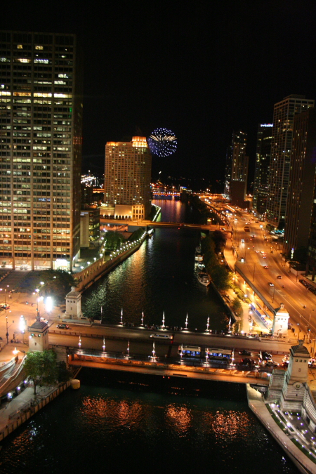 Fireworks at Navy Pier from the restaurant Sixteen at Trump International Hotel and Tower (Chicago). Chicago River pictured leading into Lake Michigan